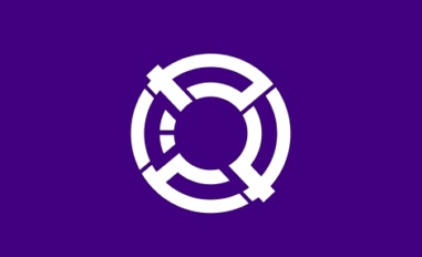 Flag of Yanaizu Fukushima